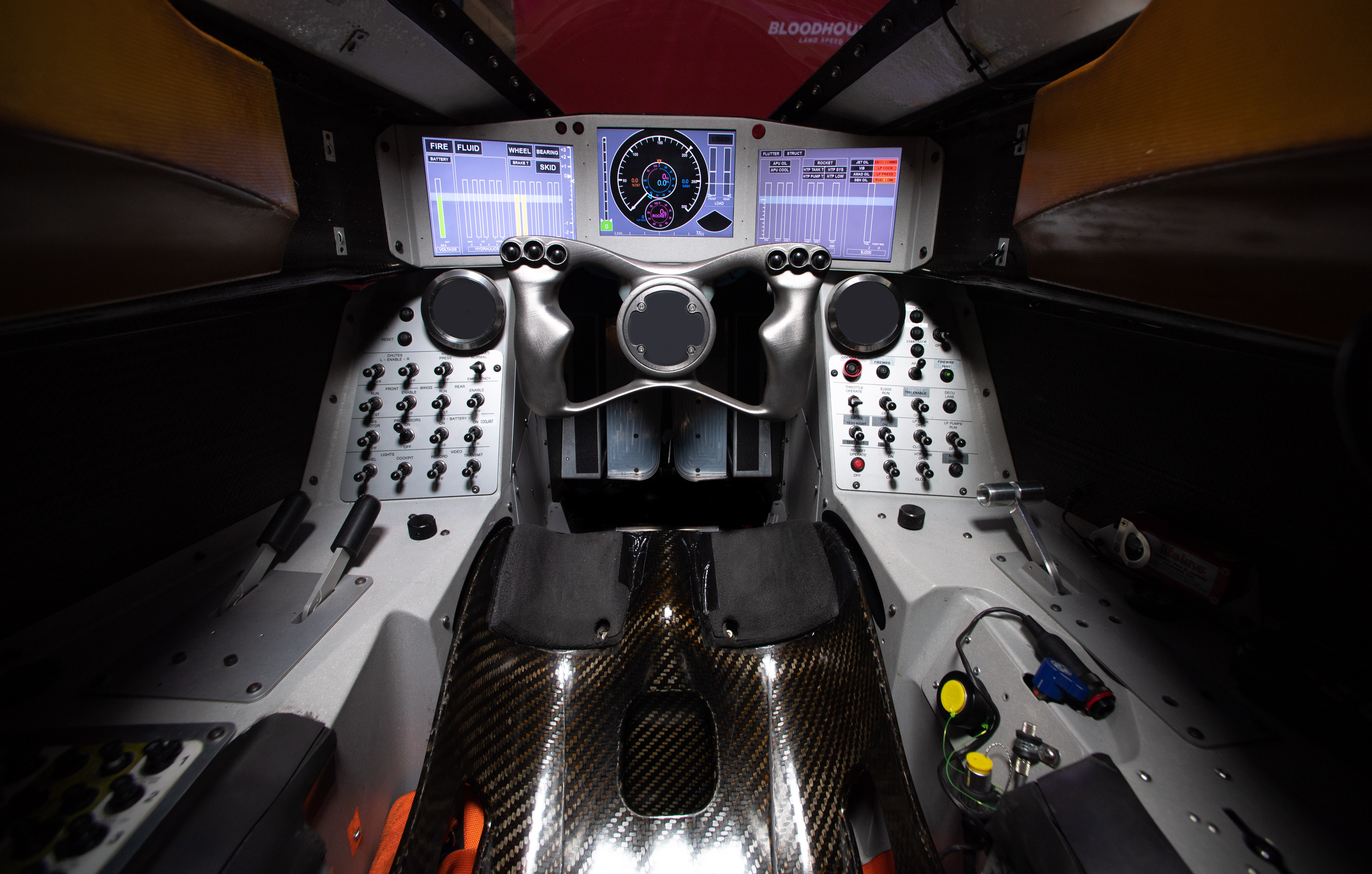 The Bloodhound LSR cockpit is designed and engineered bespoke for the driver, Andy Green